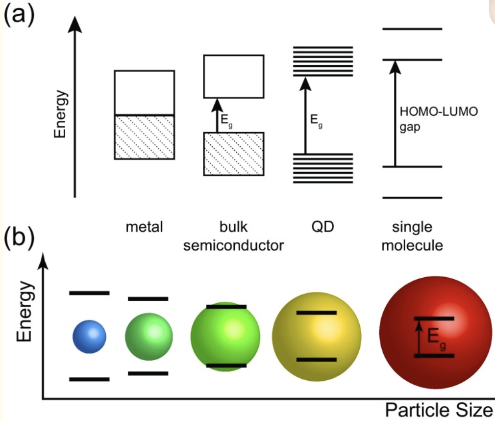 a Schematic of band structures of metals, semiconductors, quantum dots (QD) and single molecules, showing the increase in band gap (Eg) as confinement is increased. At the single molecule scale the energy bands become completely discrete, and the QD sits between this system and the band model of semiconductors. b Graphic illustrating the change in QD band gap and photoluminescence emission wavelength (colour) with increasing particle size